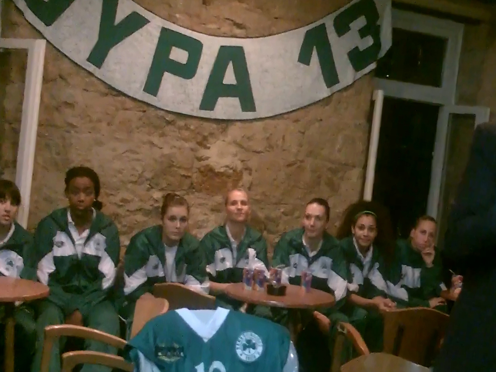 panathinaikos girls team